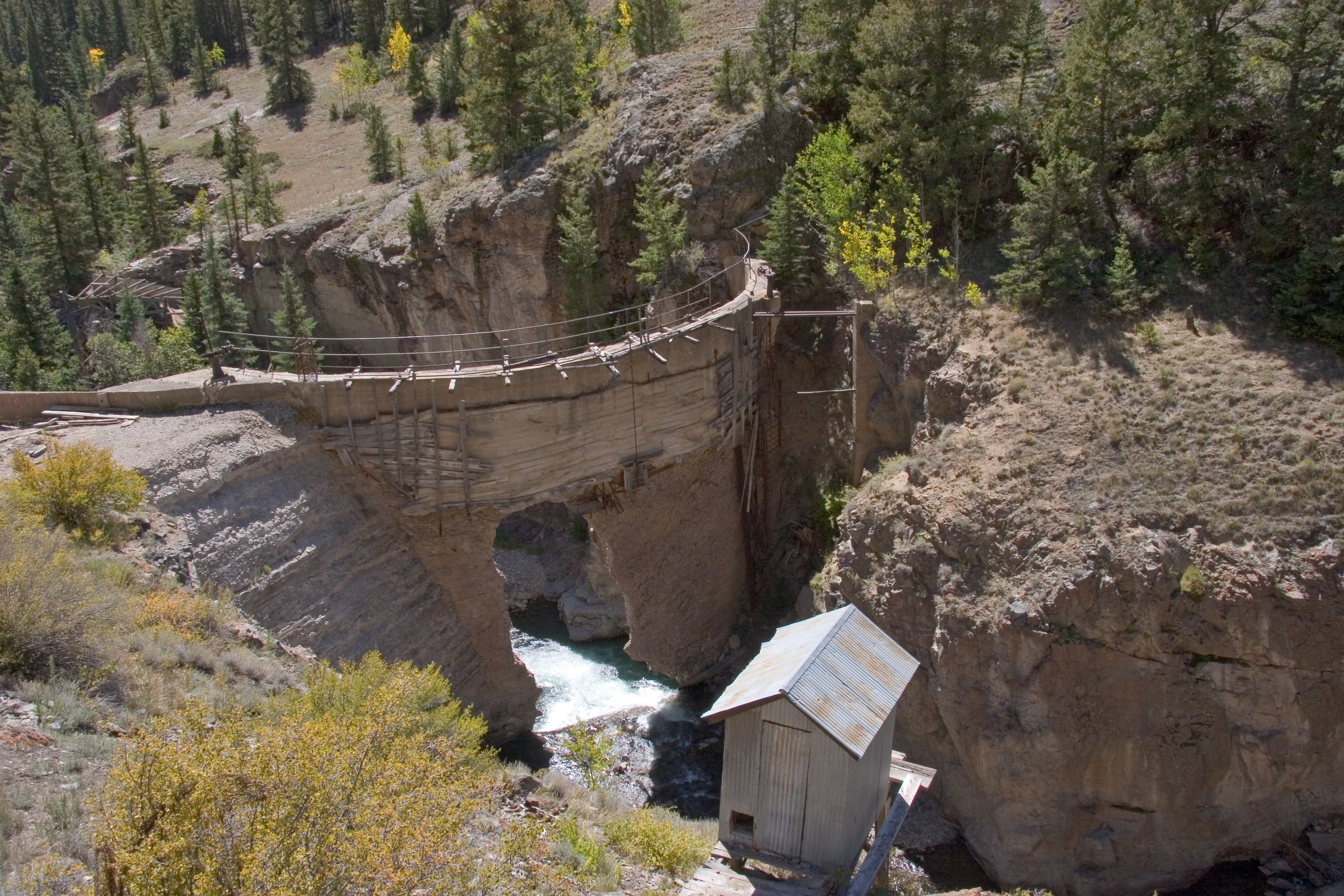 Alpine Loop 2005-09-18